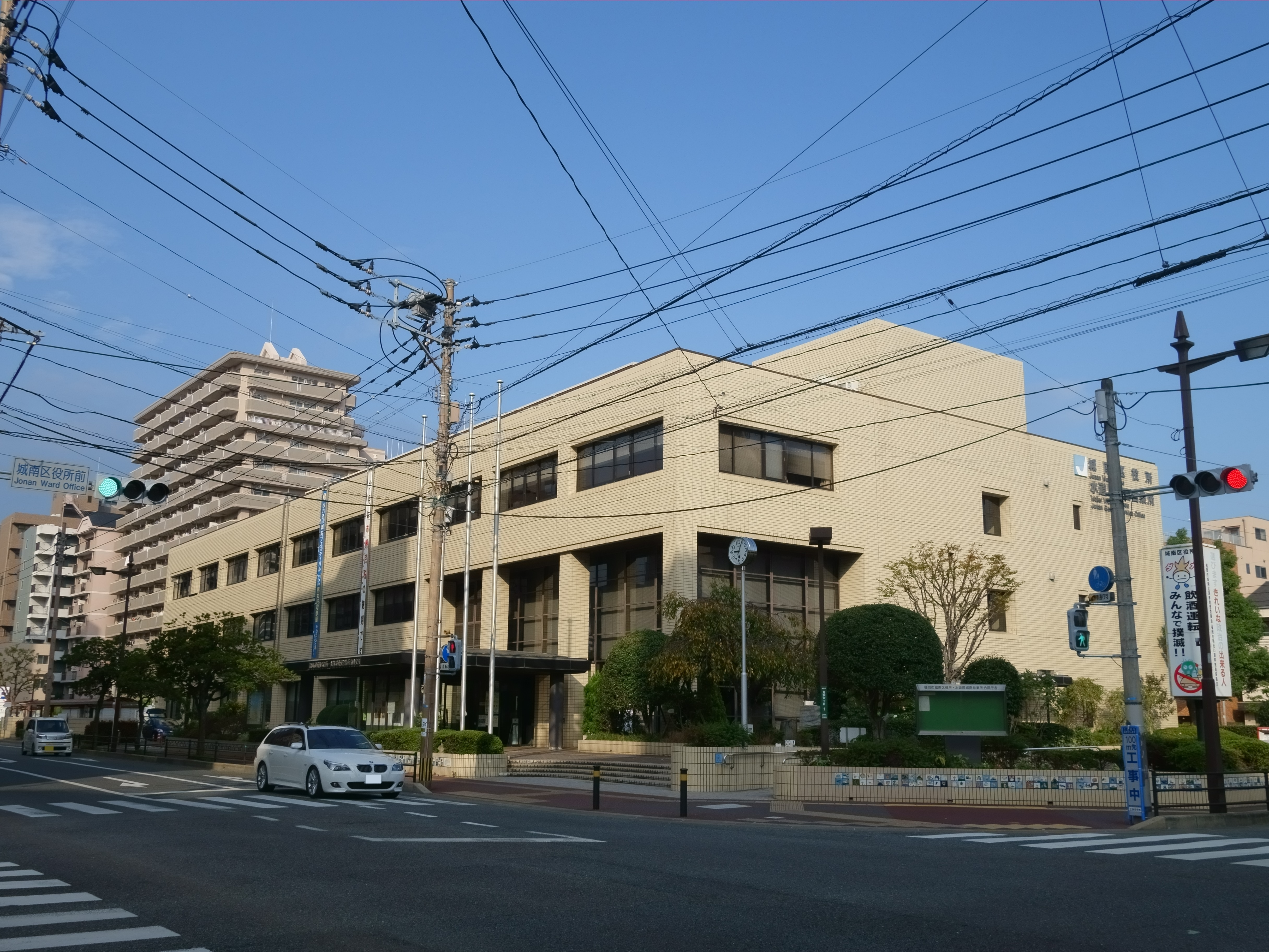 Jonan Ward office, Torikai, Jonan Ward, Fukuoka City, Japan